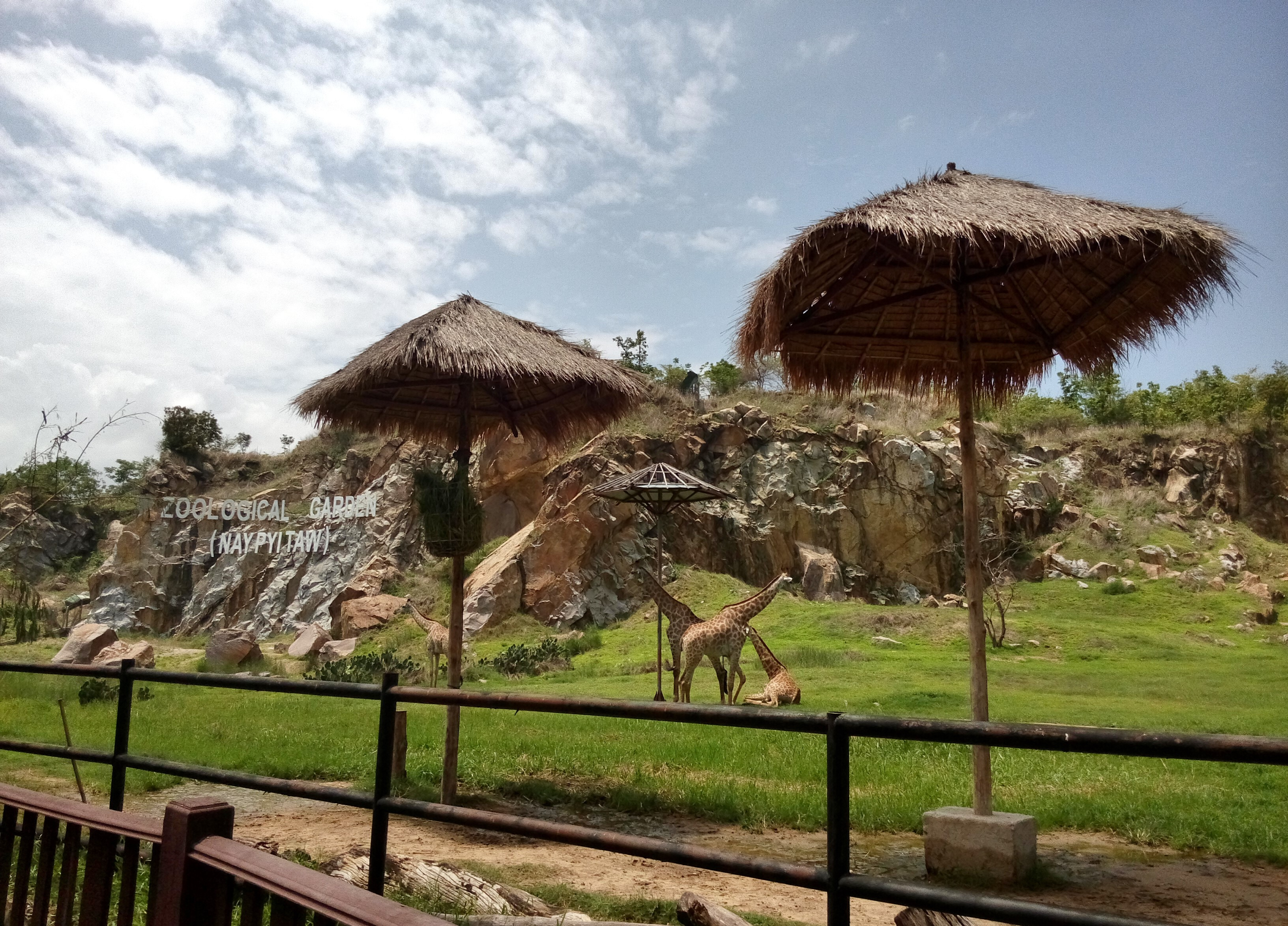 Zoological Garden (Naypyitaw), Naypyitaw မြန်မာဘာသာ: နေပြည်တော် တိရိစ္ဆာန် ဥယျာဉ်၊ နေပြည်တော်